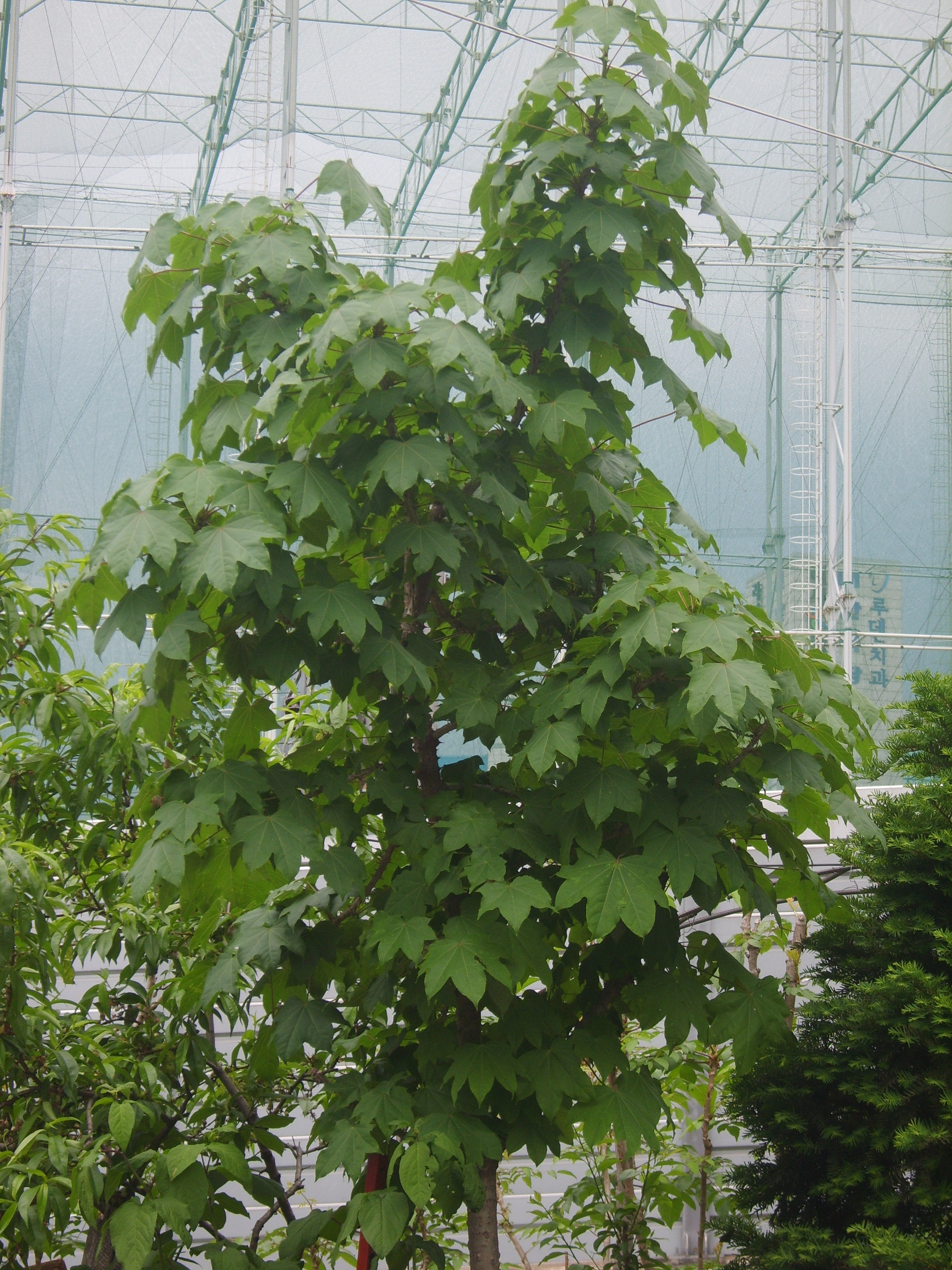 Kalopanax septemlobus in Bupyung Korea